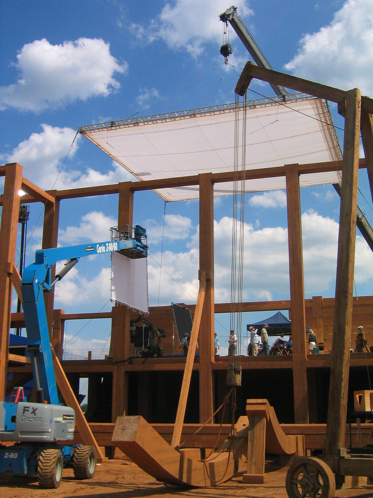 Filming on the ark for Evan Almighty starring Steve Carell